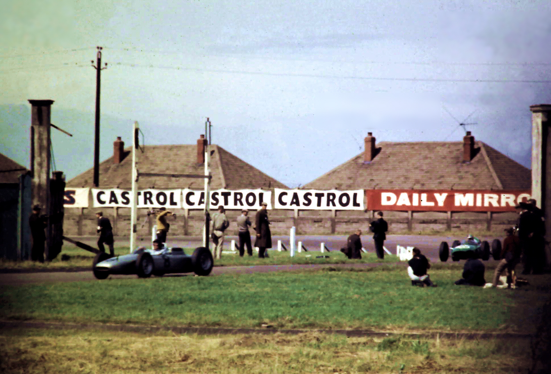 Anchor Crossing, British Grand Prix, 1961